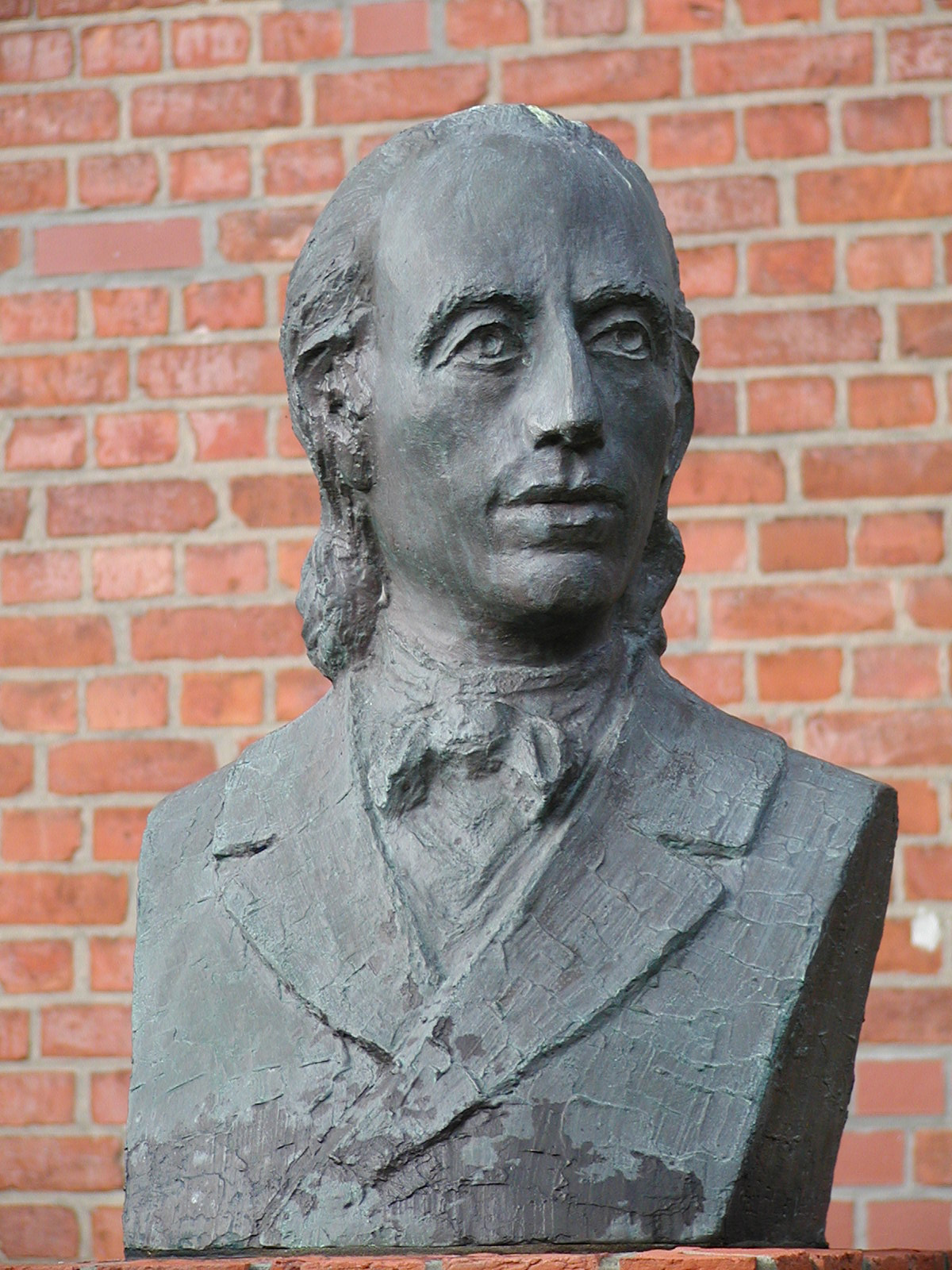 Bust of Johann Heinrich Voss in front of the church of the town Otterndorf. Voss is looking towards his former teaching place at the latin school. Johann Heinrich Voss